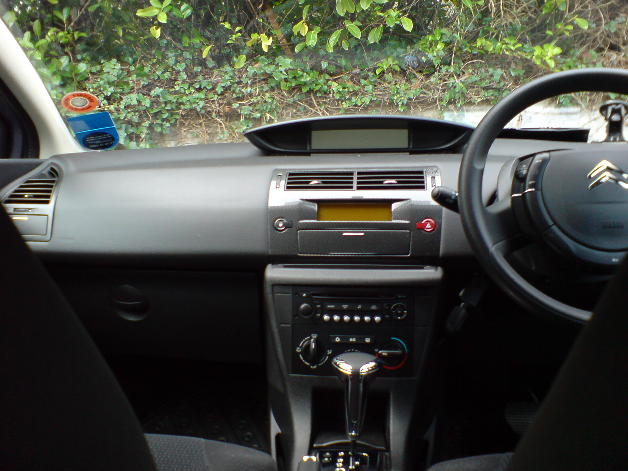 100 points to anyone who can guess the location. Hint: It's somewhere in Crawley. Smart answers akin to "in the car" will get -10 points.